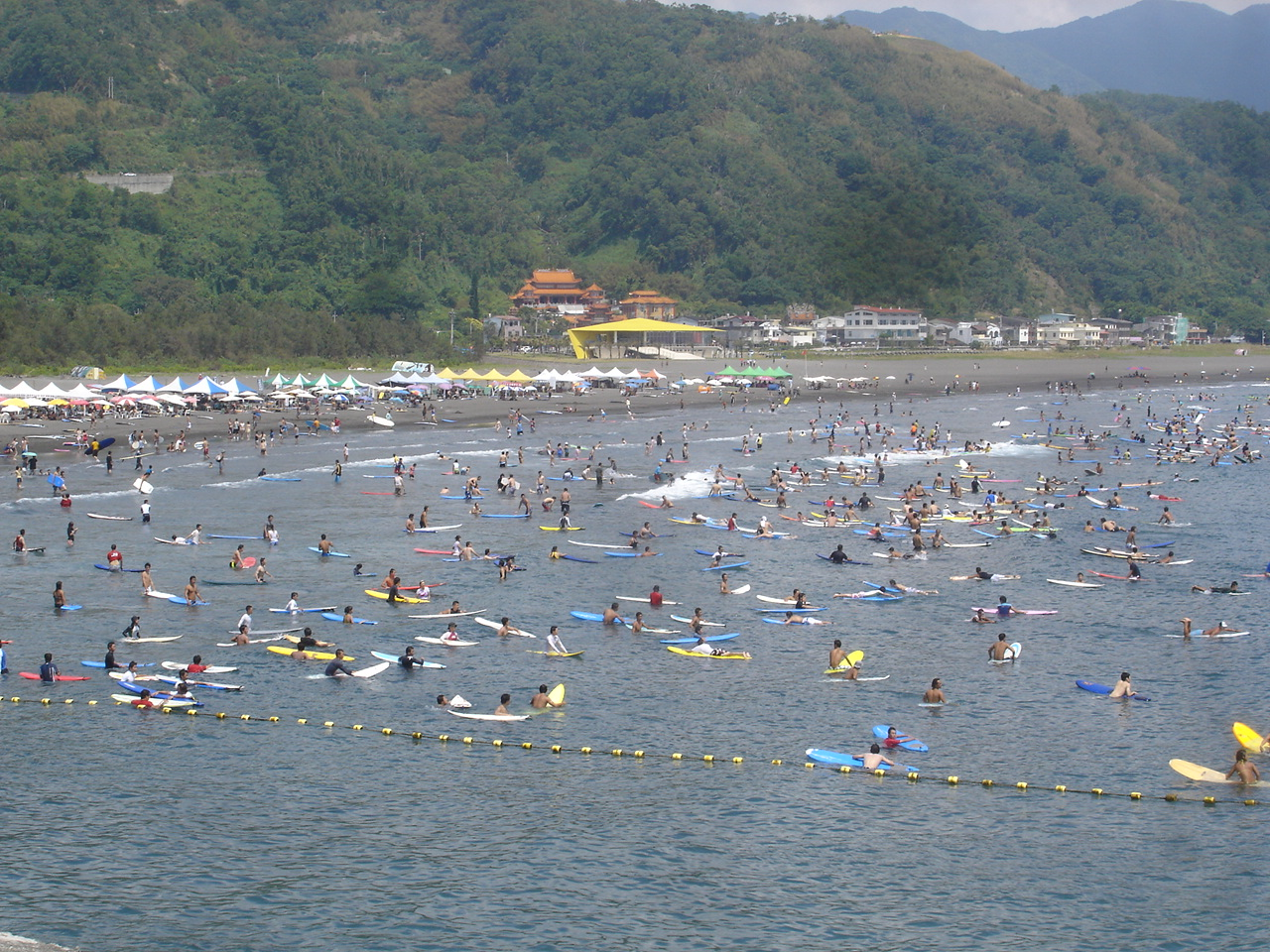 Wai-ao Beach in Yilan County, Taiwan